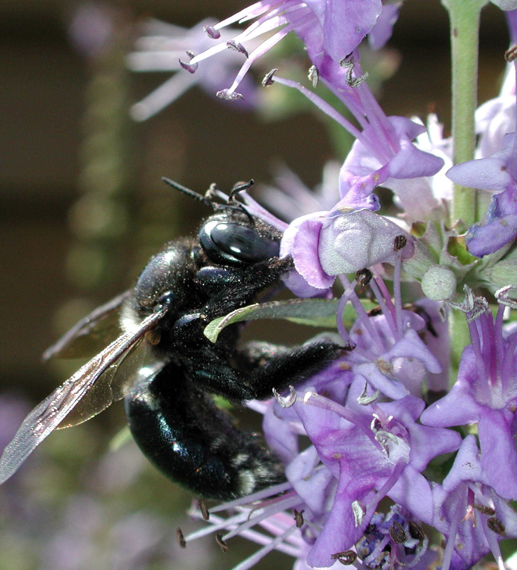 Xylocopa micans on Vitex in coastal South Carolina, mid-summer. Black Bee.